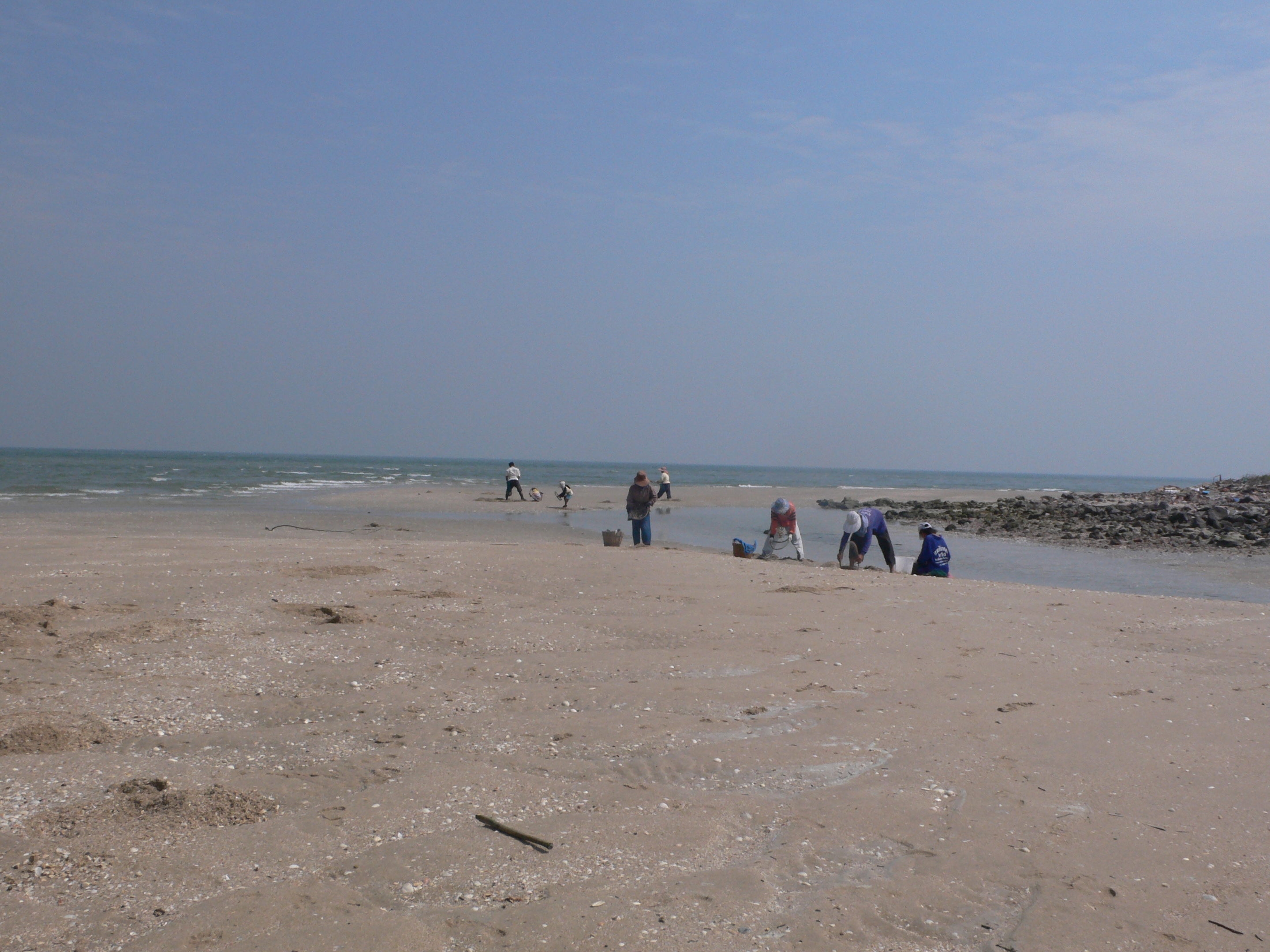 Sand spit at Laem Pak Bia, Amphoe Ban Laem, Petchaburi Province Thailand